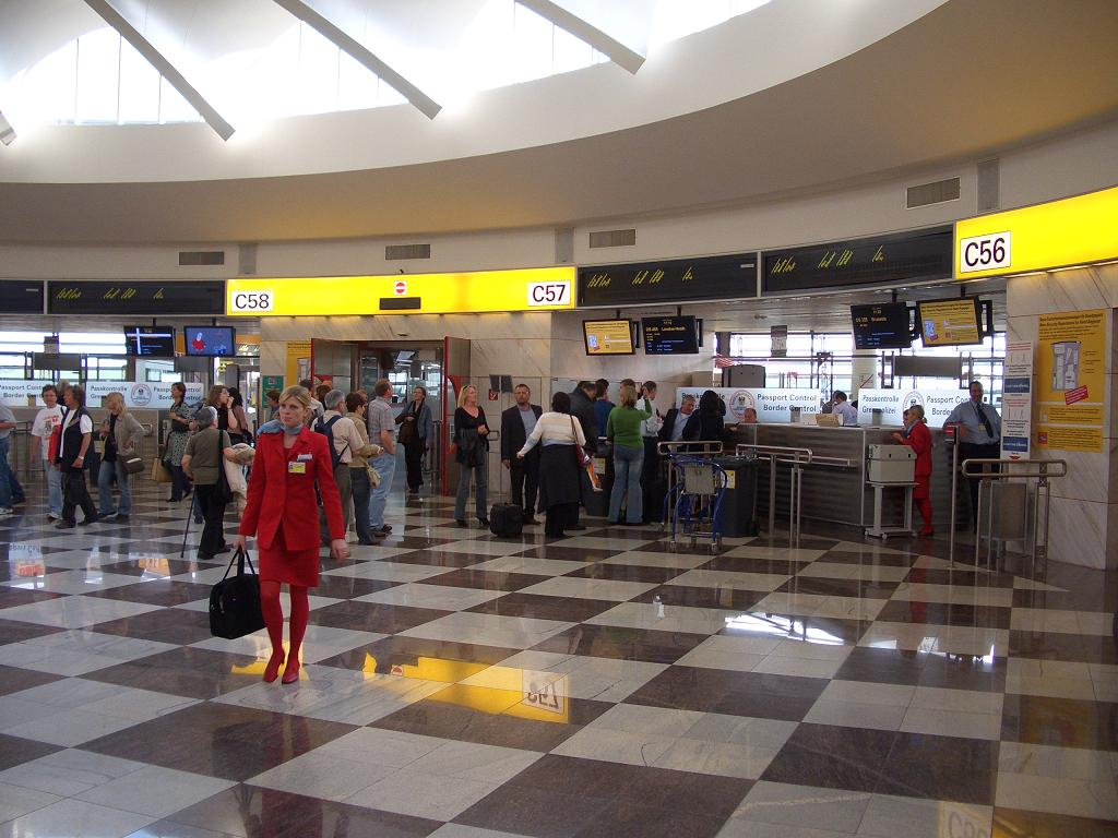 Interior view of Hall B - Gates